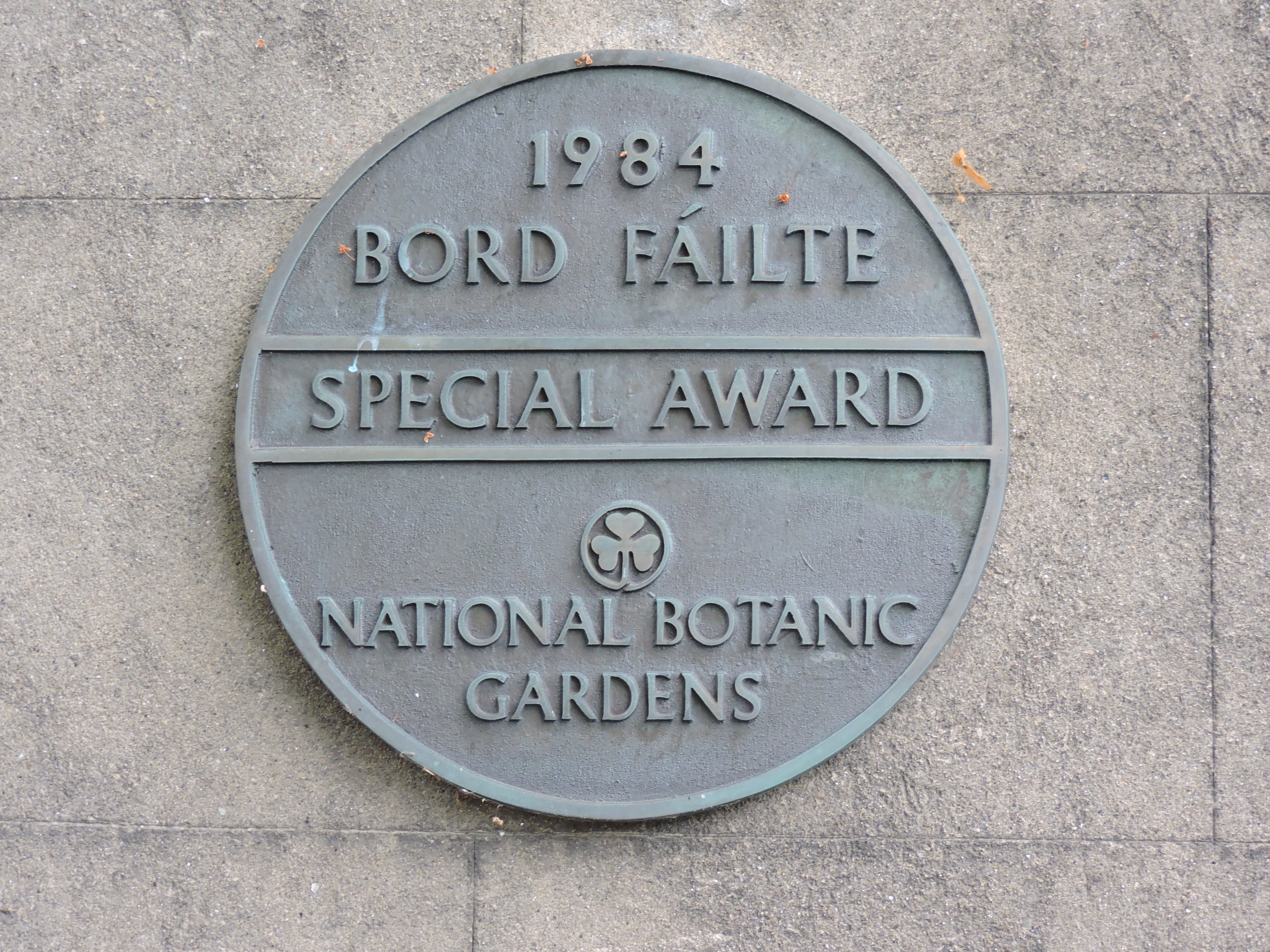 Bord Fáilte special award 1984 - Dublin Botanic Gardens